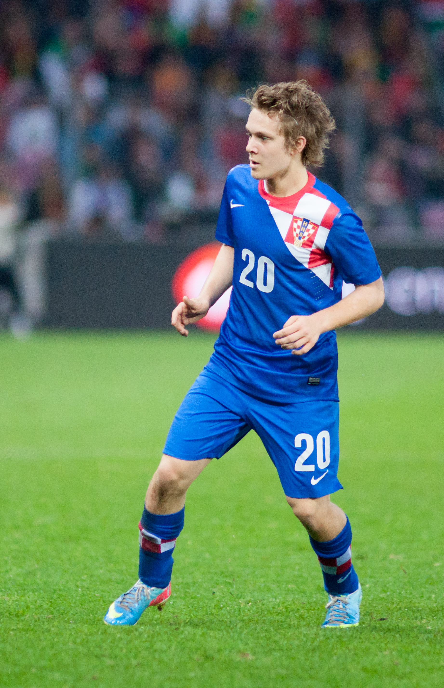 Croatia vs. Portugal, 10th June 2013